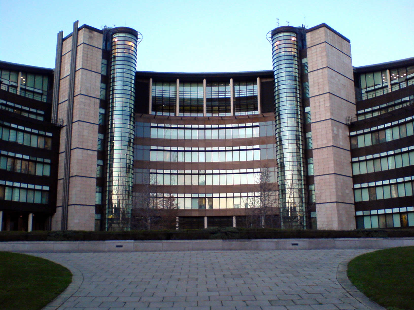 2006. Scottish Widows HQ, at Morrison Street, in Edinburgh's financial district. The building is designed in a horse-shoe shape.